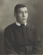 Filas Platonides OSBM was the first missionary sent in missions to Winnipeg (Manitoba, Canada) round 1900.